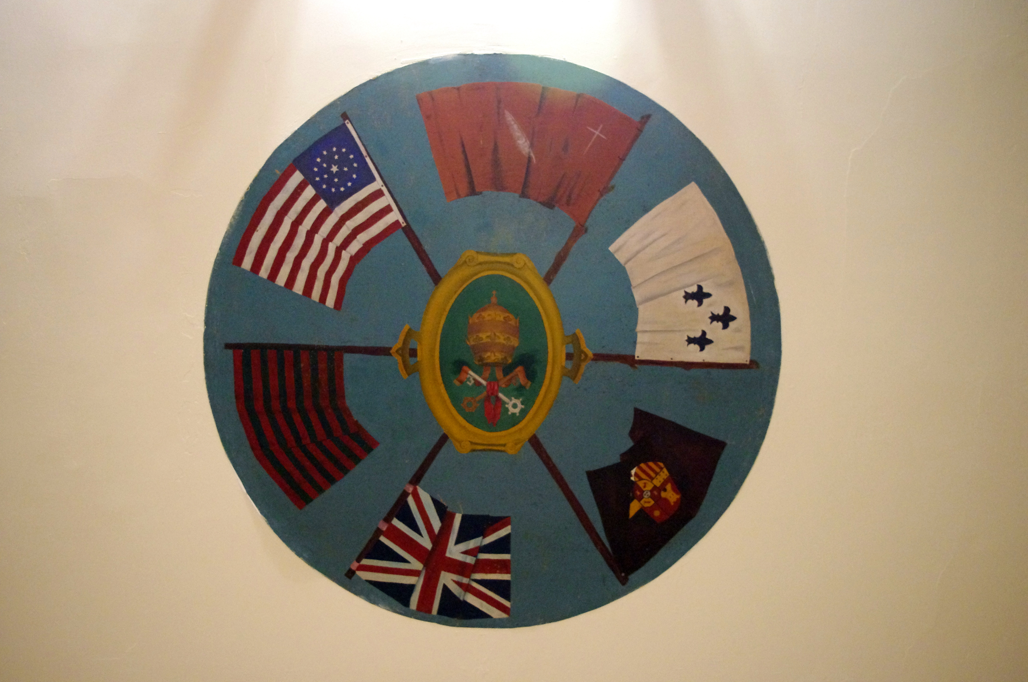 St. Francis Xavier Basilica (Vincennes, IN) - undercroft chapel ceiling, national flags to which the parish has belonged (Indian, French, Spanish, British, Vincennes Clark, United States)